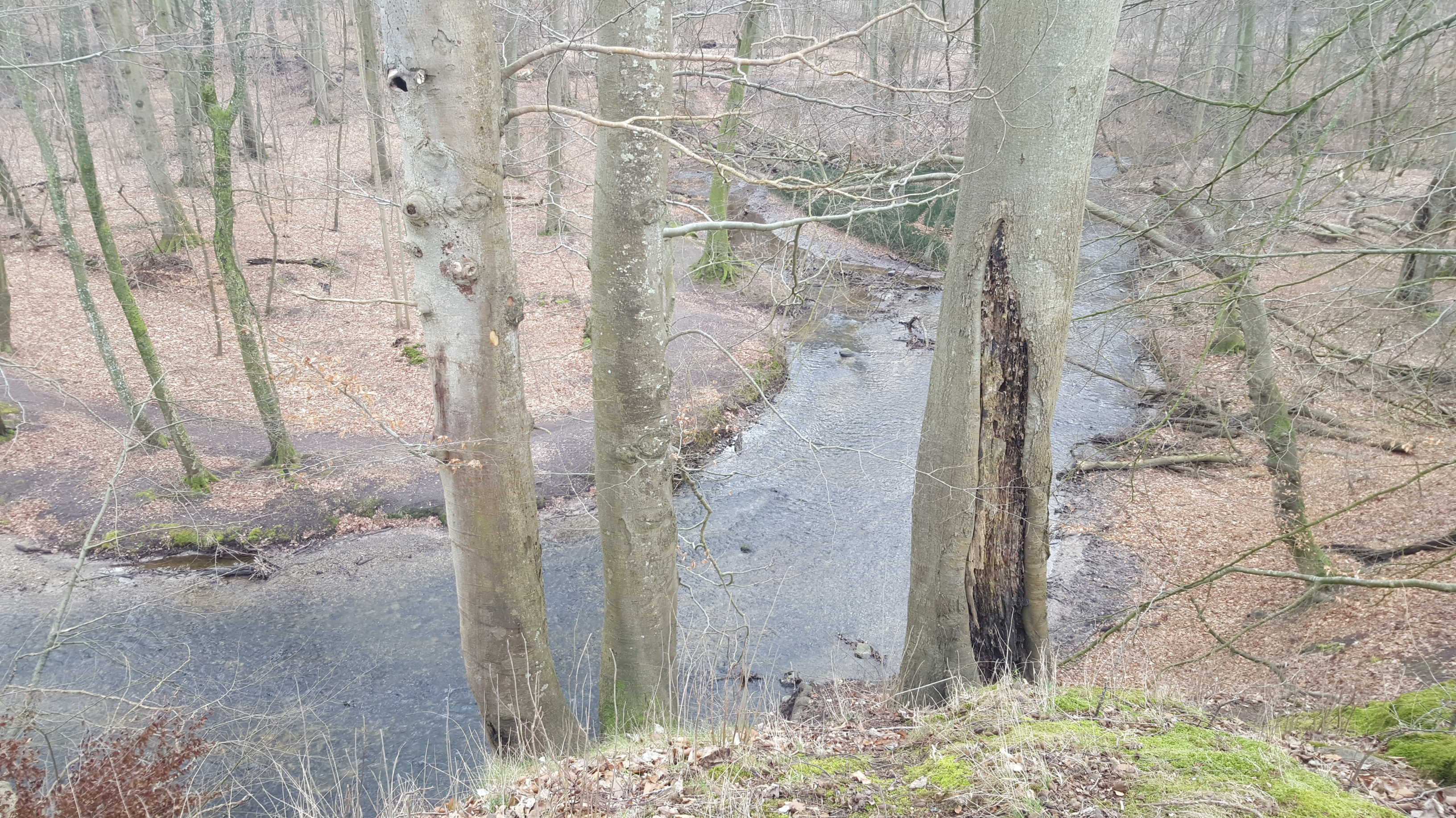 Skovhus Vænge